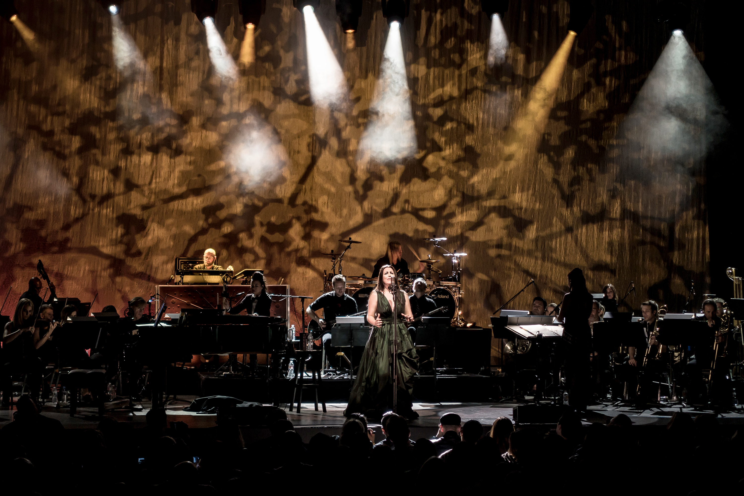 Evanescence performing live at The Greek in Los Angeles, California, on Sunday, October 15, 2017. Part of their Synthesis Live tour.